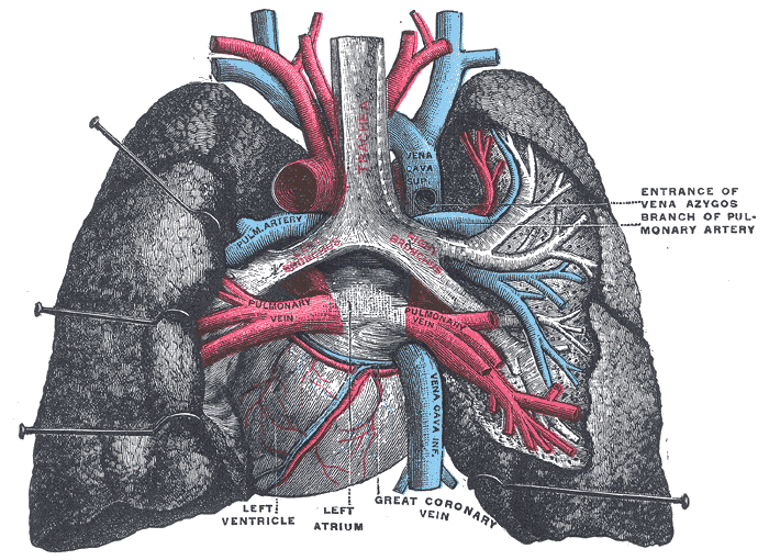 Pulmonary vessels, seen in a dorsal view of the heart and lungs. The lungs have been pulled away from the median line, and a part of the right lung has been cut away to display the air-ducts and bloodvessels. (Testut.)